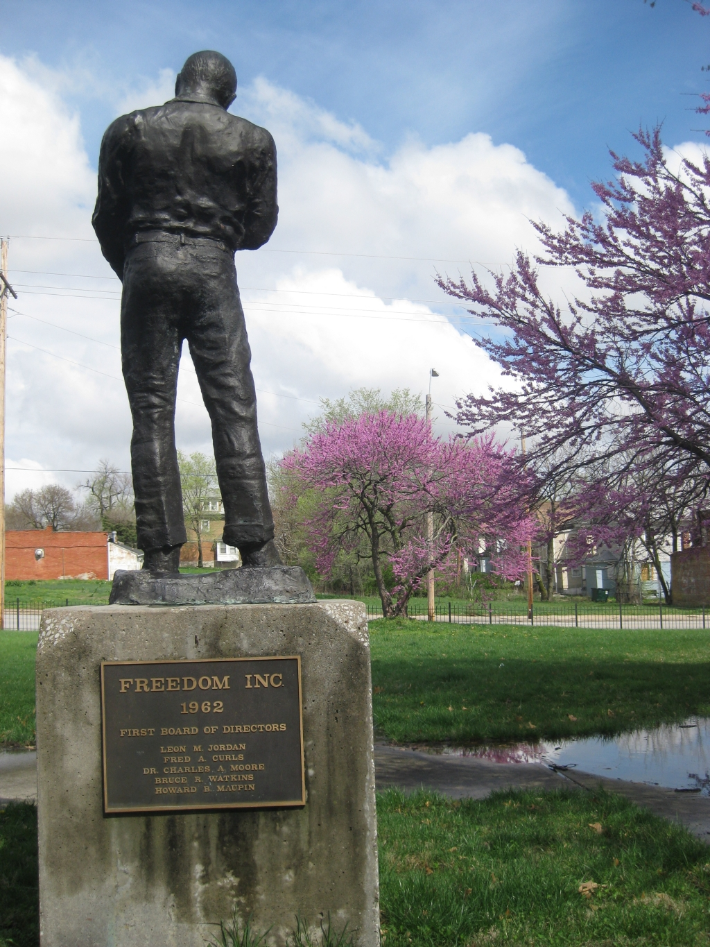 Photo of Statue at Leon M. Jordan Memorial Park in Kansas City, Missouri, March, 2012.